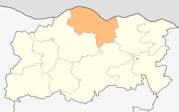 Map of Gulyantsi municipality, Pleven Province